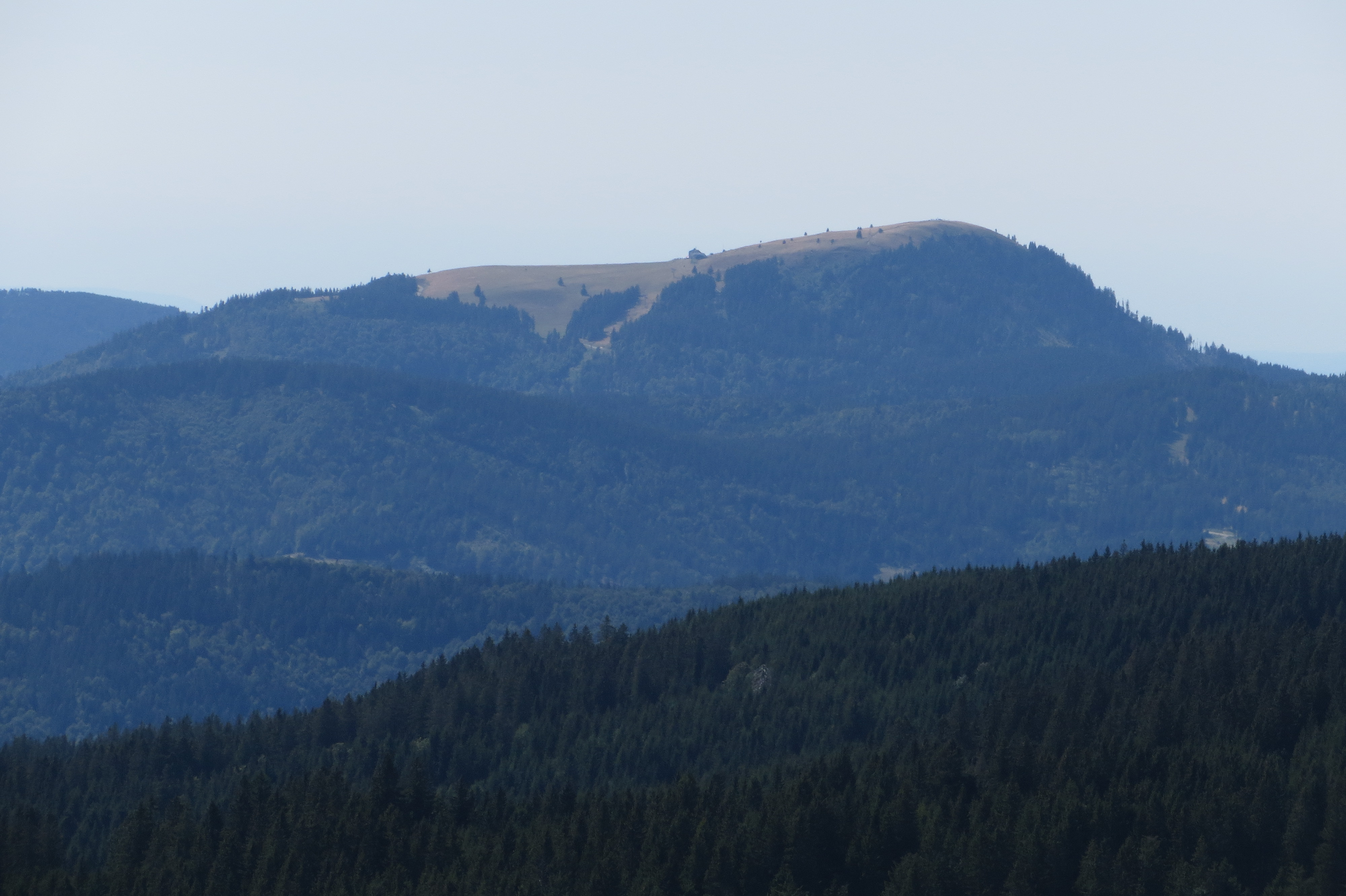 The Belchen, third highest mountain in the Black Forest and Baden-Wuerttemberg, Germany